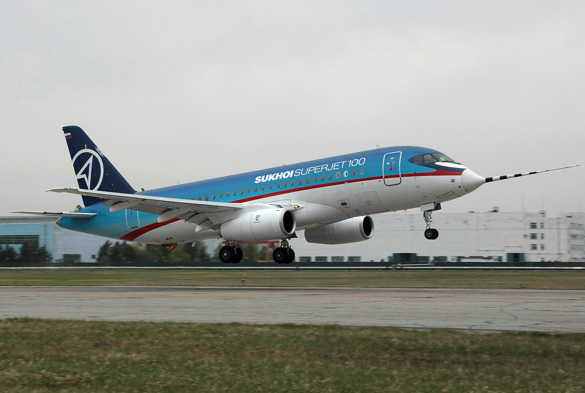 A Sukhoi Superjet 100 prototype on take-off for the type's maiden flight. The aircraft features a prominent nose pressure probe used for flight testing. A skid pad is also visible on the bottom of the rear fuselage.